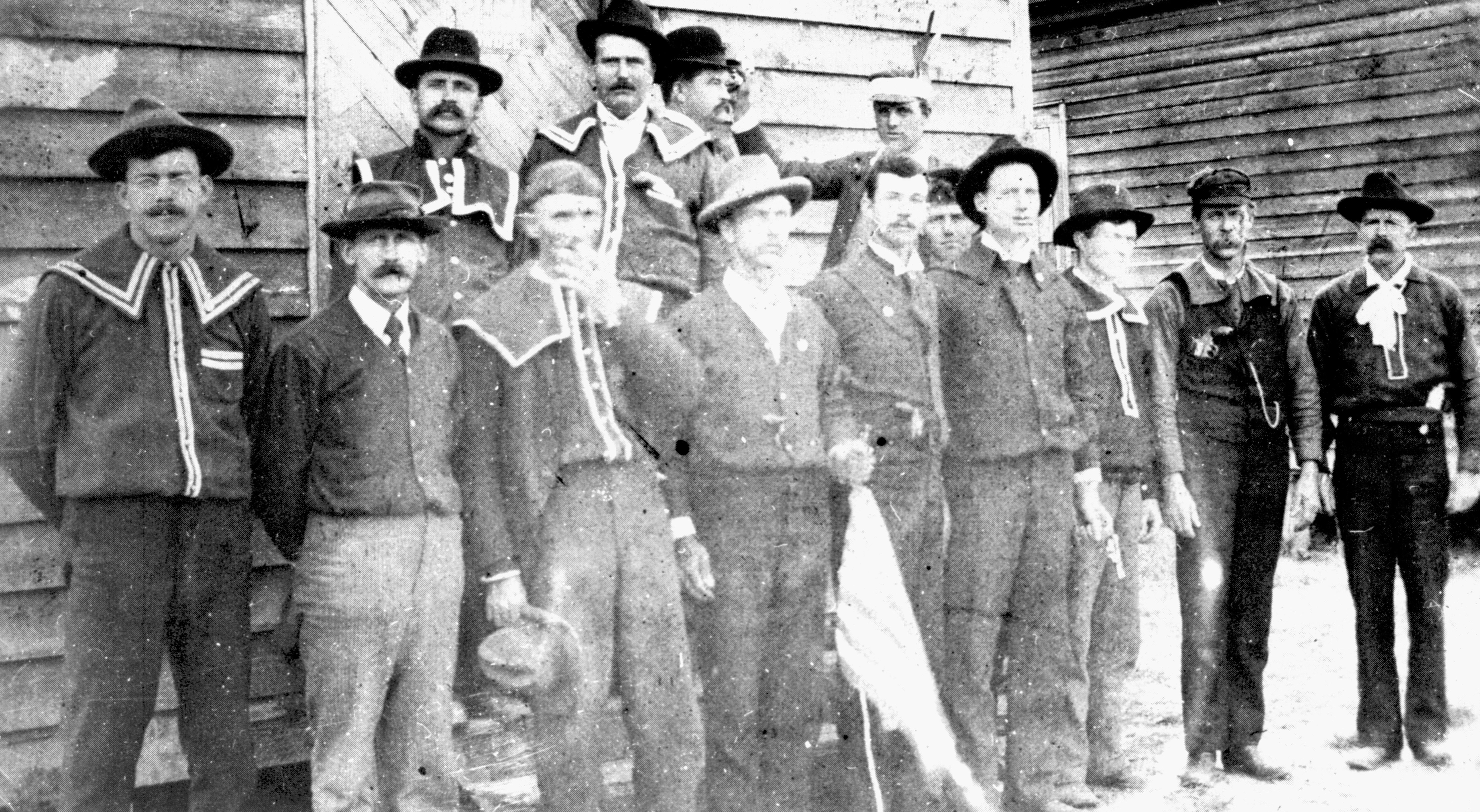 From the General Negative Collection, North Carolina State Archives, Raleigh, NC.